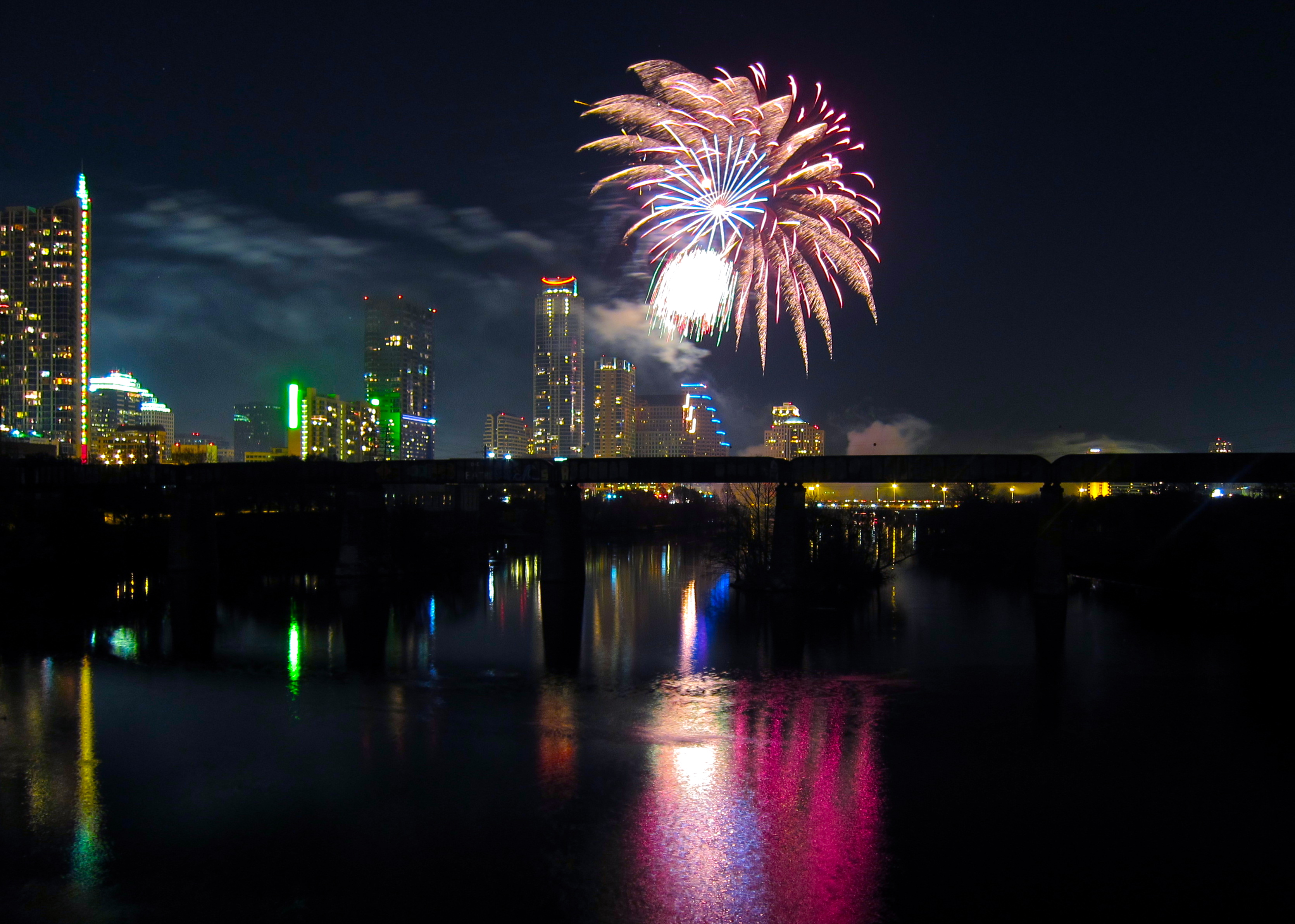 Happy new year from Austin. Here's to a great 2012!